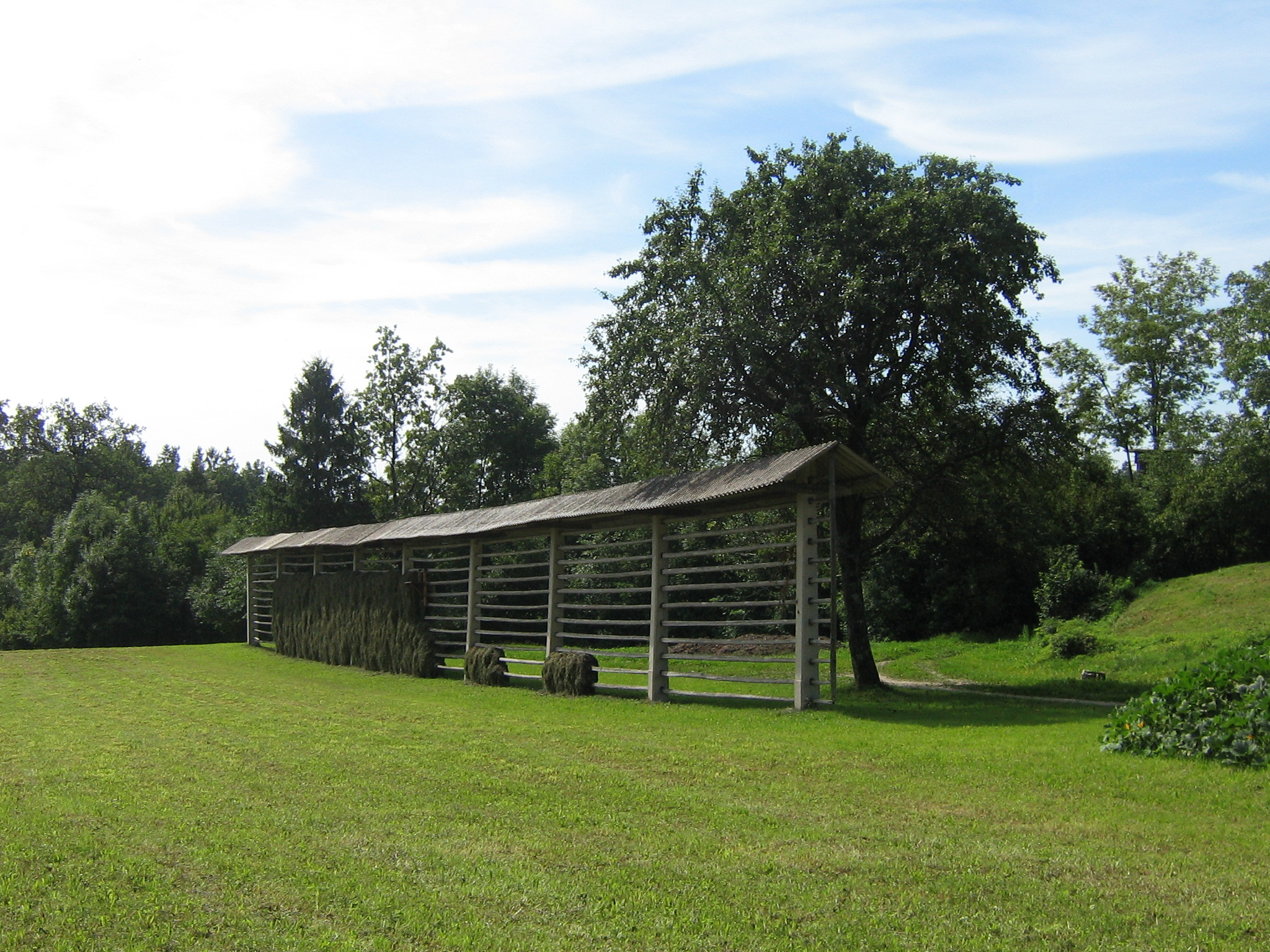 Kozolec in Gorenjska region, Slovenia photo taken by me in September 2006.